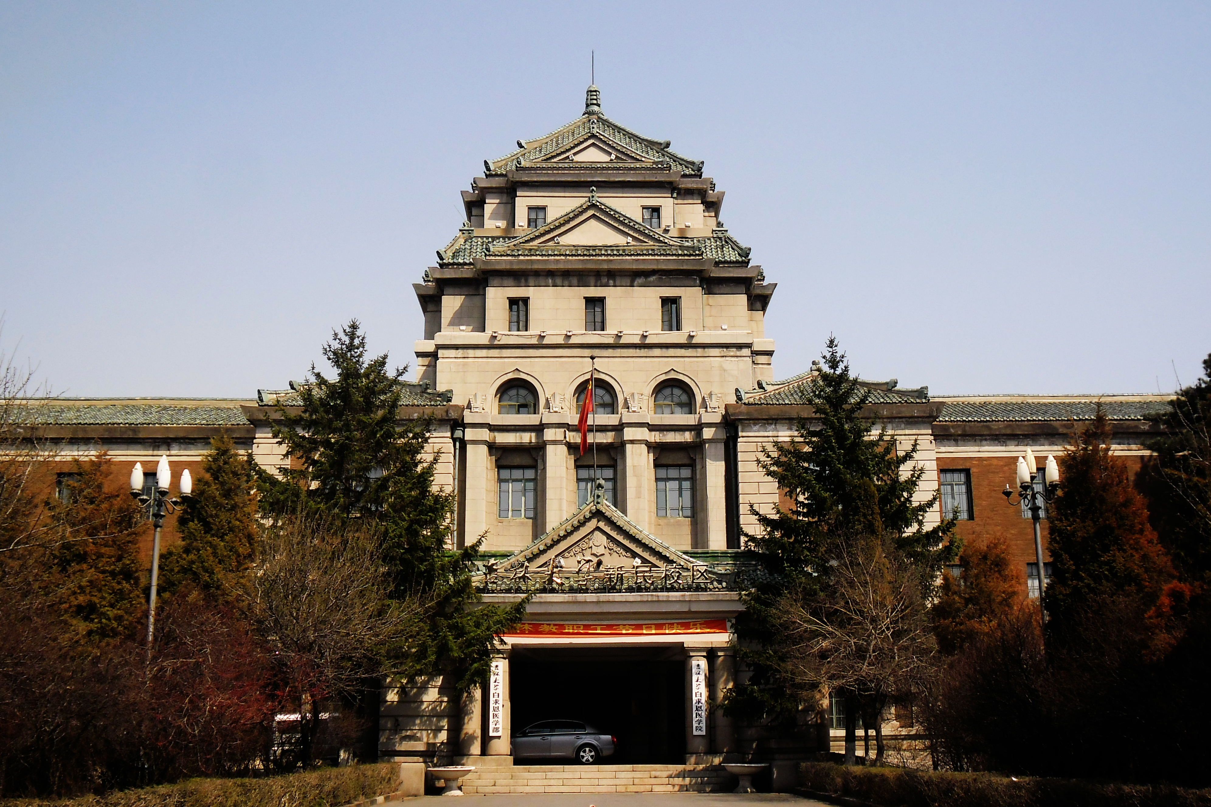 Ministry of Justice of Manchukuo building, now Jilin University Xinmin Campus.